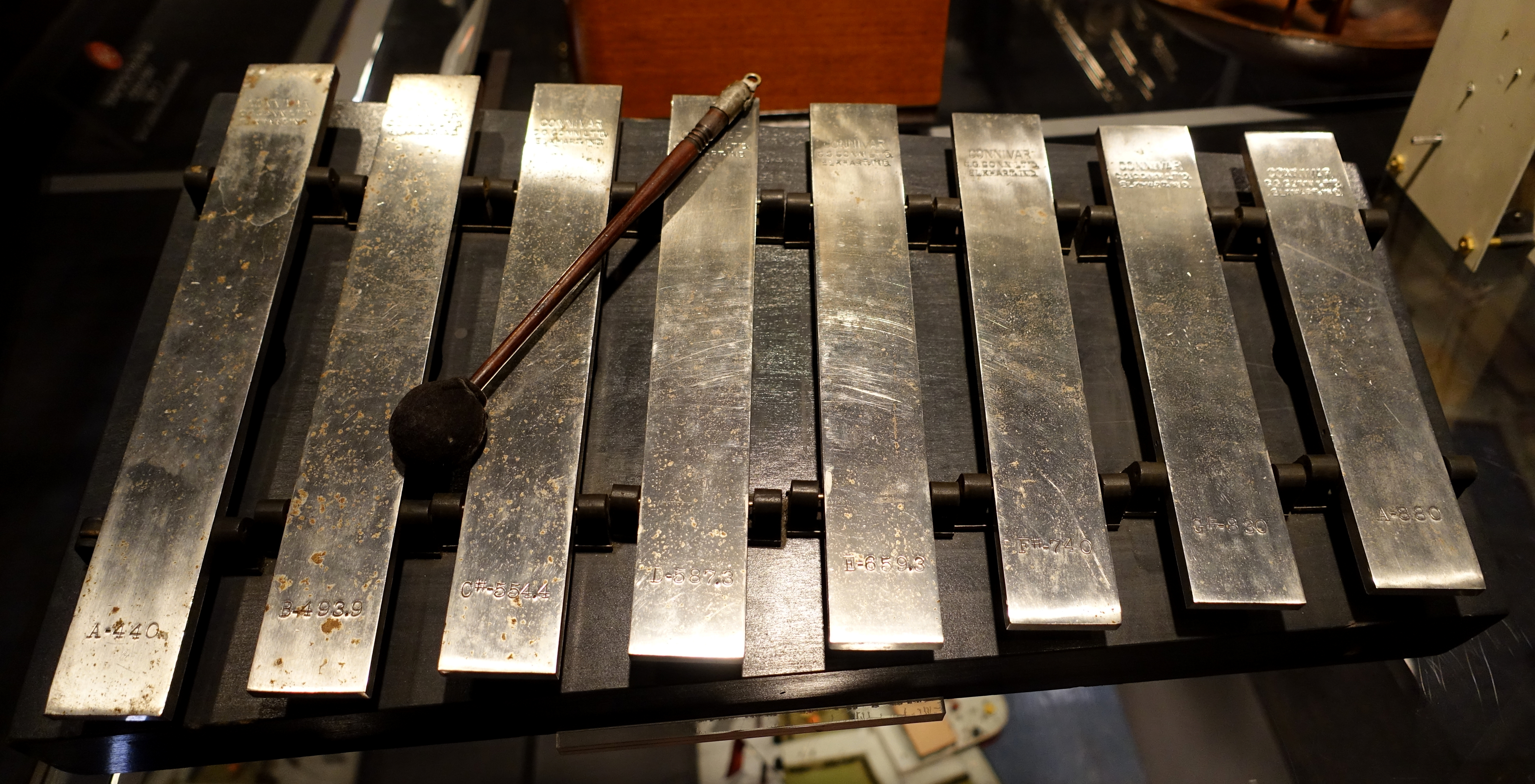 Exhibit in the Museum of Science and Industry, Chicago, Illinois, USA.